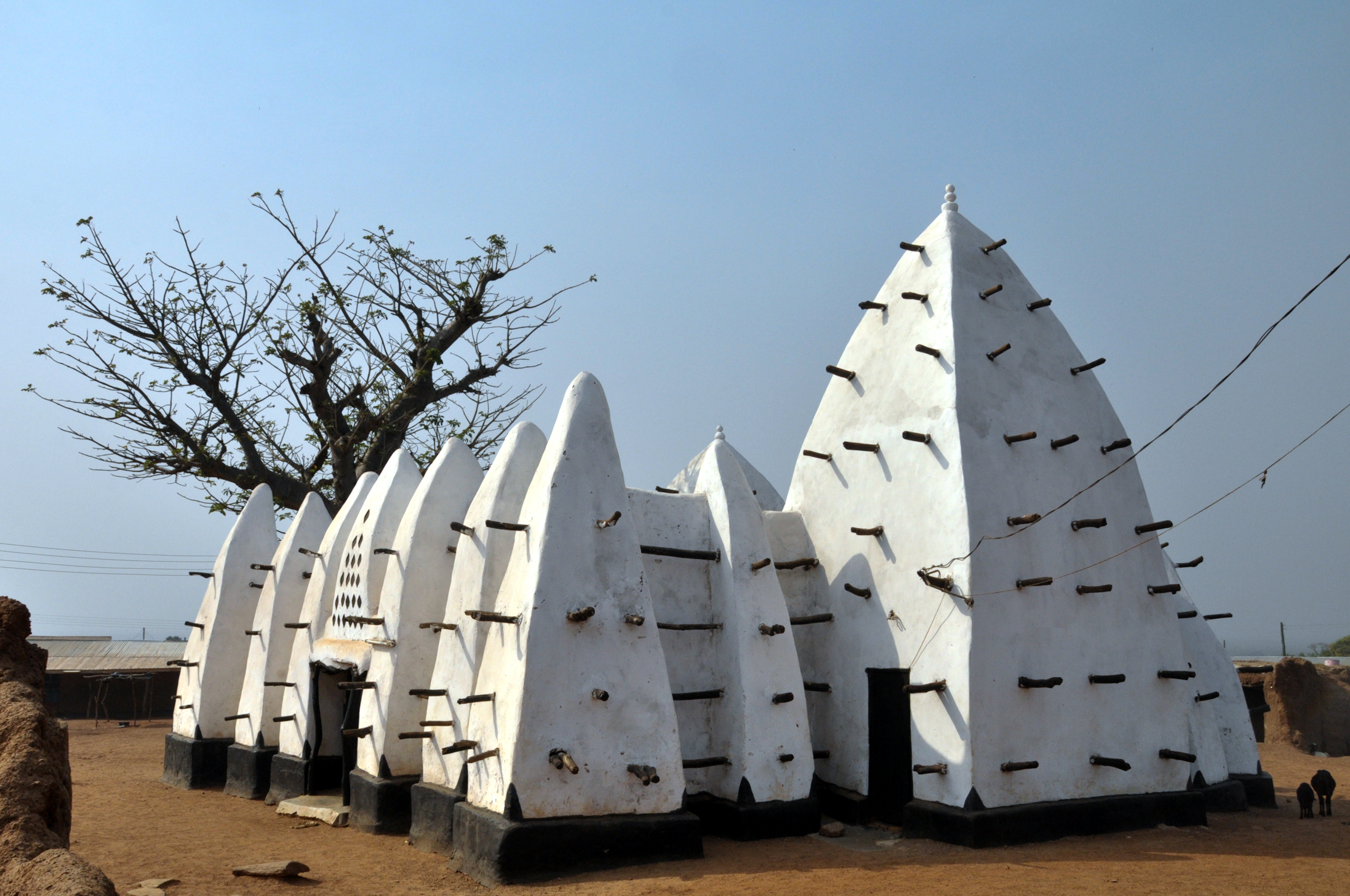 Larabanga Mosque in the village of Larabanga, Ghana. Aa 14th Century Sudanese Architecture. The oldest mosque in Western Africa.